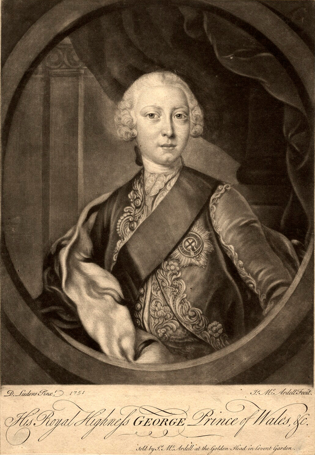 George III of the United Kingdom while Prince of Wales